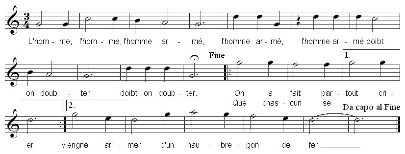 L’homme armé, french chanson of the late 14th century